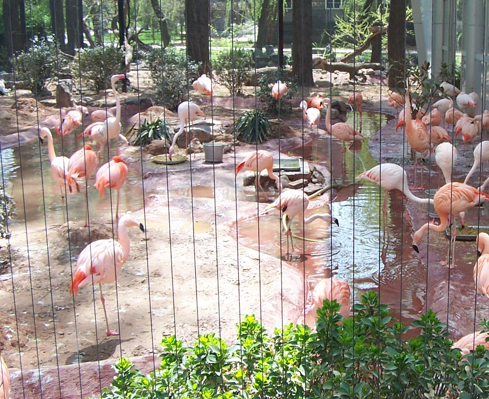 Flamingos in the Beijing Zoo (CN).